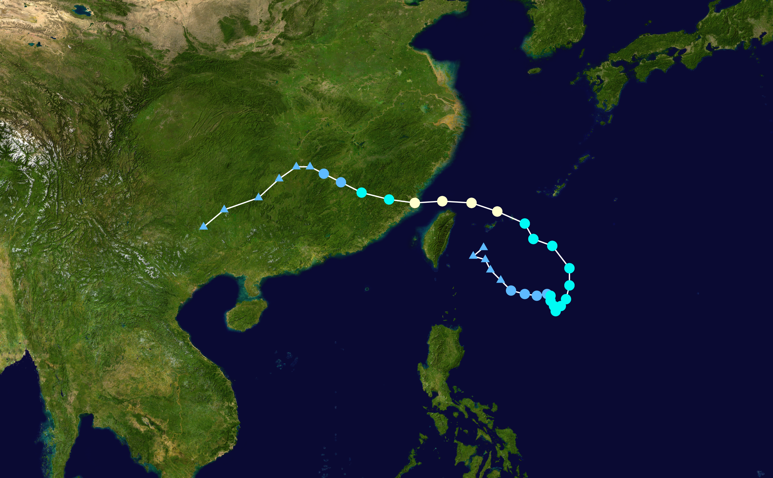 Track map of Severe Tropical Storm Trami of the 2013 Pacific typhoon season. The points show the location of the storm at 6-hour intervals. The colour represents the storm's maximum sustained wind speeds as classified in the Saffir–Simpson scale (see below), and the shape of the data points represent the nature of the storm, according to the legend below. Saffir–Simpson scale Tropical depression≤38 mph≤62 km/h Category 3111–129 mph178–208 km/h Tropical storm39–73 mph63–118 km/h Category 4130–156 mph209–251 km/h Category 174–95 mph119–153 km/h Category 5≥157 mph≥252 km/h Category 296–110 mph154–177 km/h Unknown Storm type Tropical cyclone Subtropical cyclone Extratropical cyclone / Remnant low / Tropical disturbance / Monsoon depression